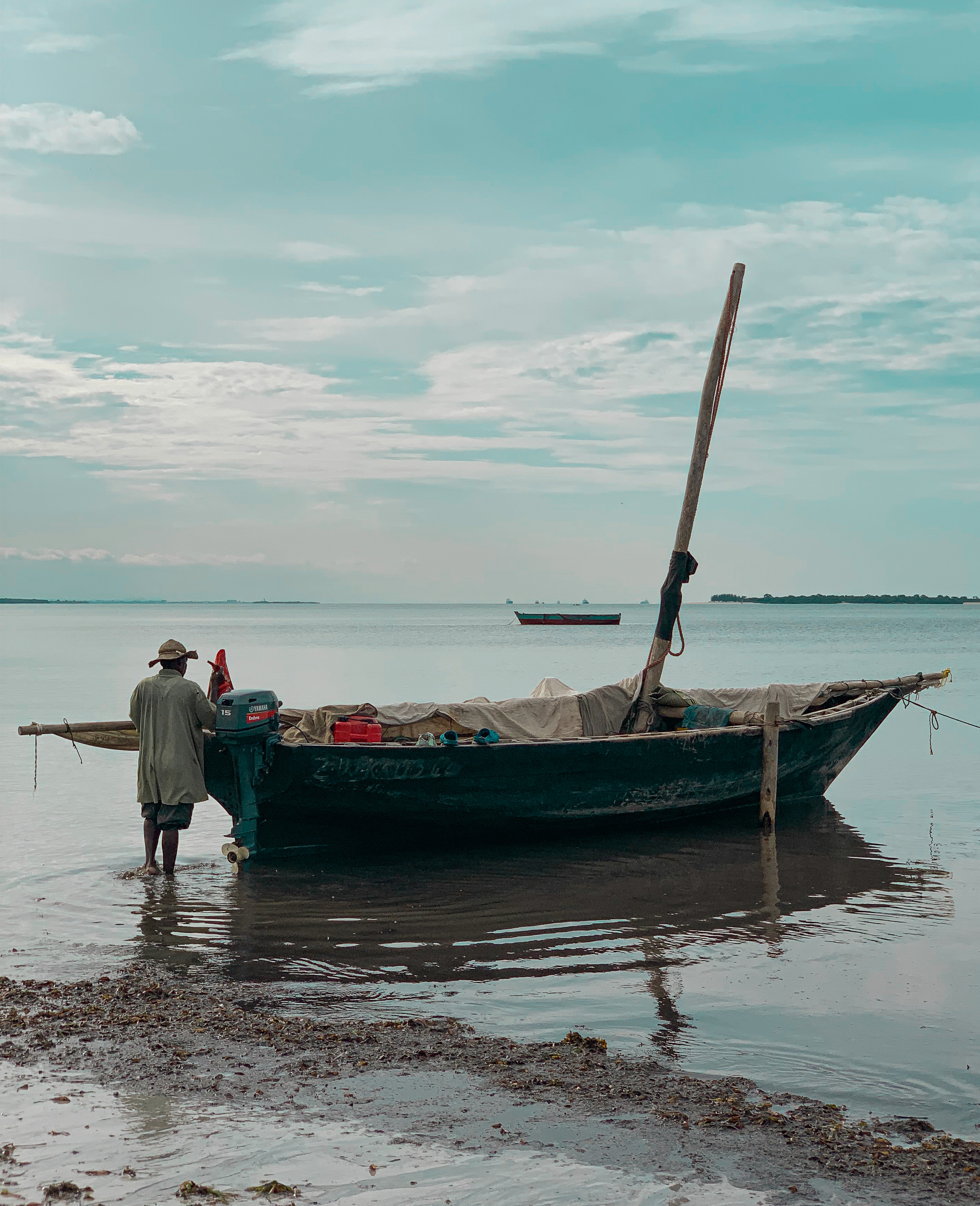 This is an image with the theme "Africa on the Move or Transport" from: Tanzania